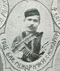 Portrait of IMARO member Gotse Mezhdurechki